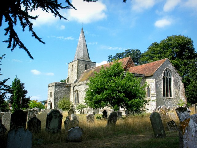 Saint Nicholas Church, Pluckley. St Nicholas Church and churchyard, Pluckley, viewed from the South East.